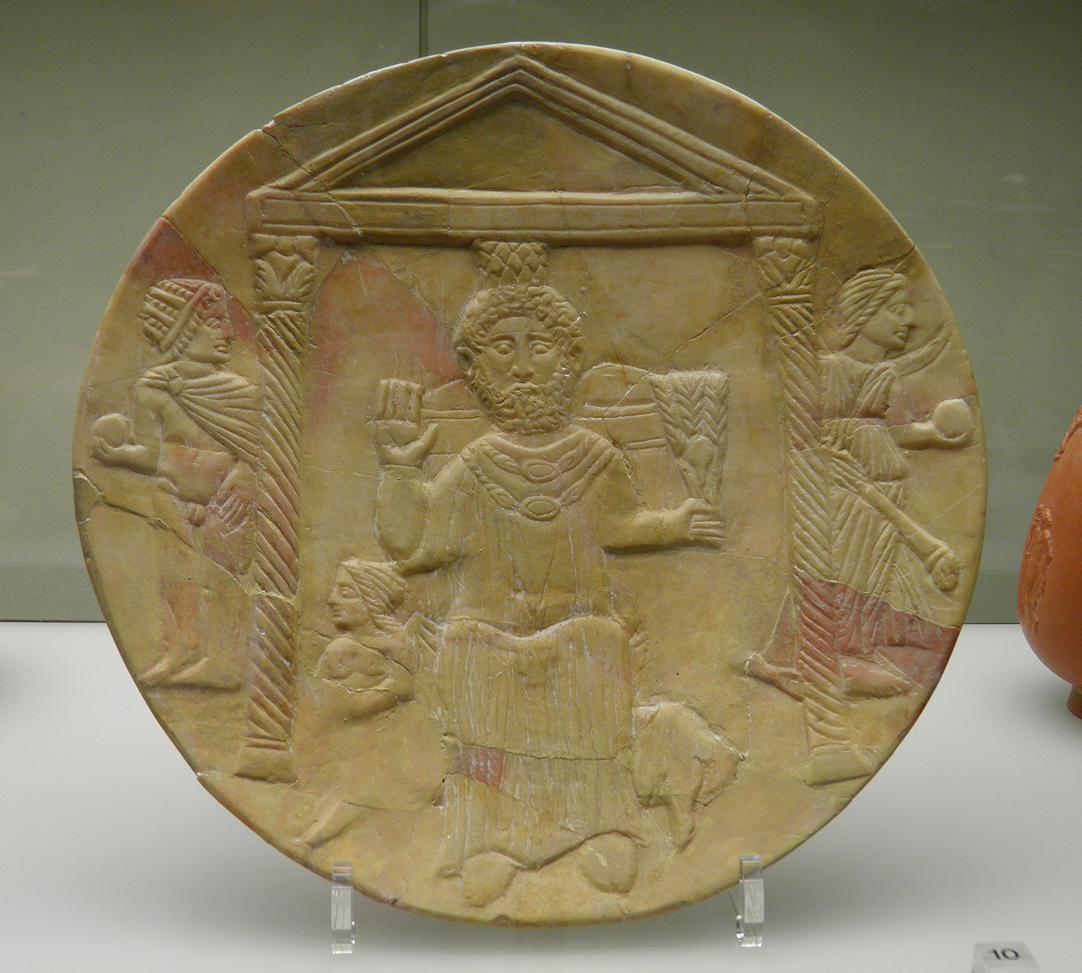 Votive plate for the African god Baal-Saturn, 3rd C. AD, Romisch-Germanisches Museum, Cologne